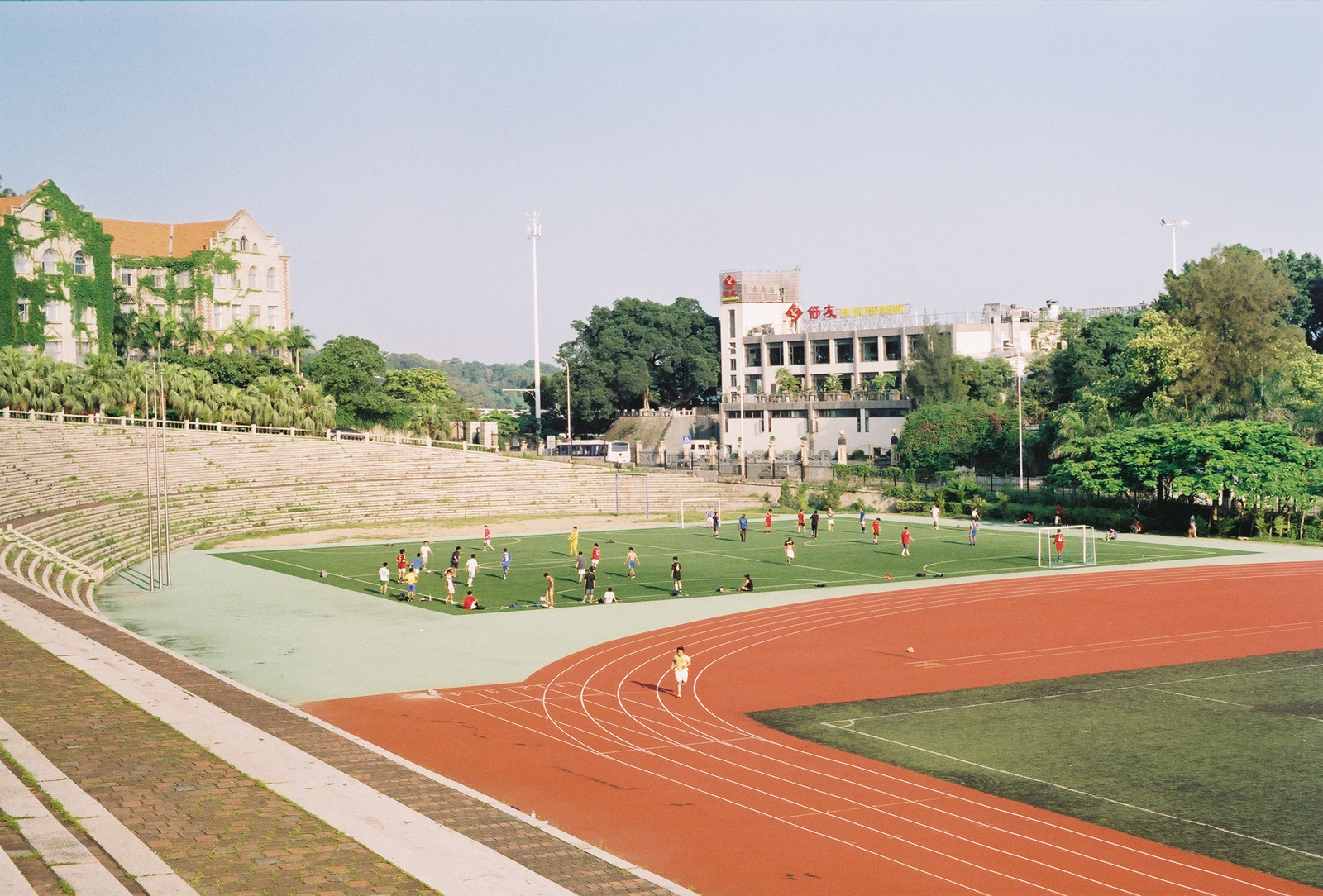 the image was took in June 2012 at the SHANG XUAN CHANG --- the historic playground of Xiamen University in June 2012